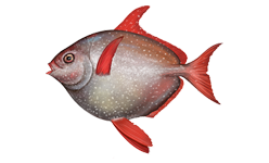 Opah, Lampris guttatus